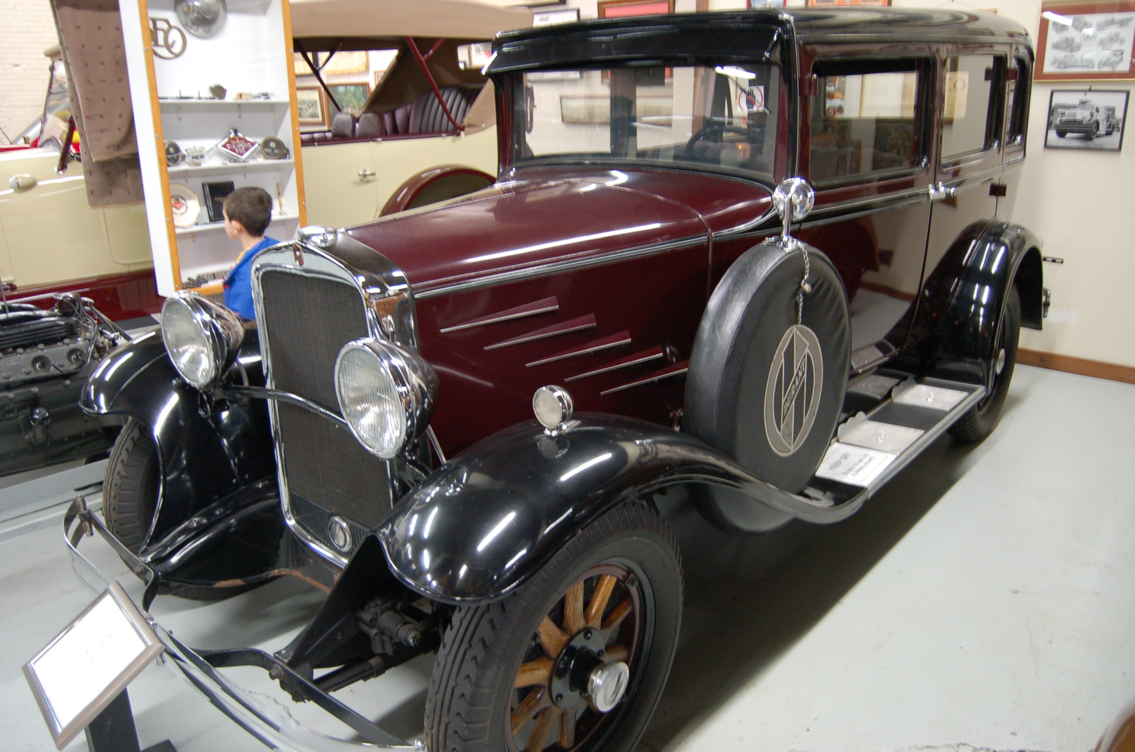 1930 Durant 6-14 sedanR E Olds Museum, Lansing MI 2-9-2008